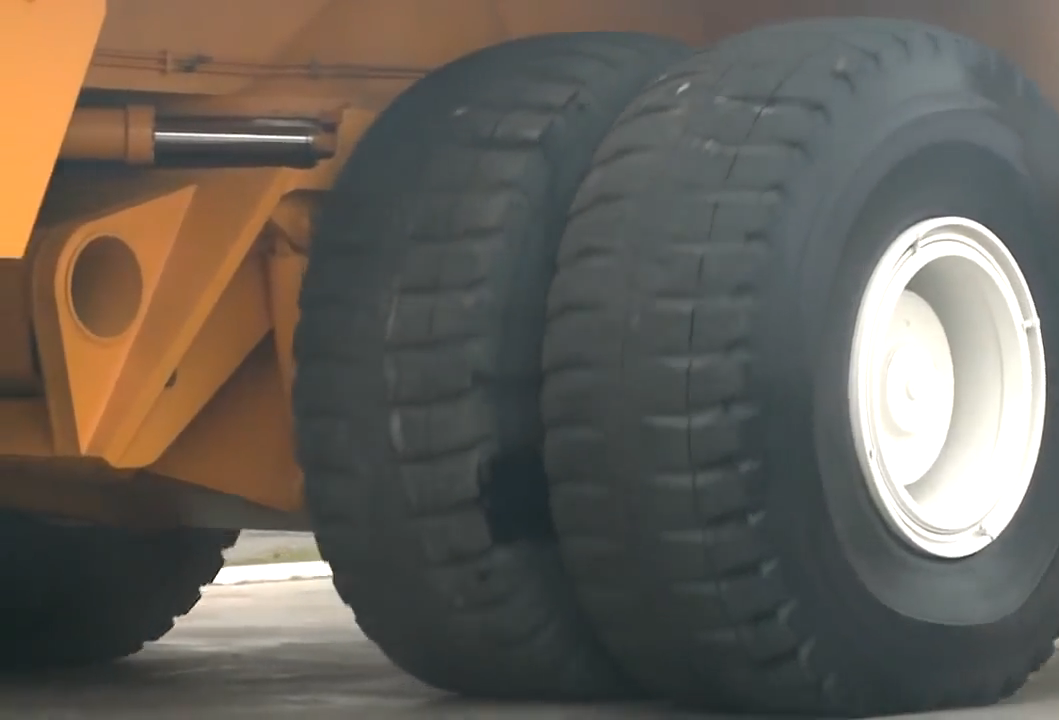 BelAZ 75710 on presentation